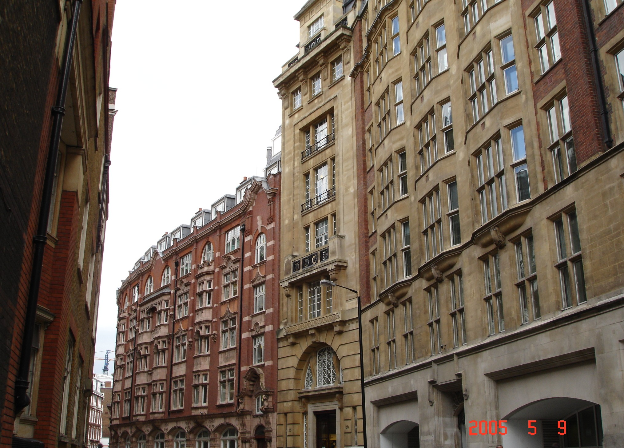 The Department for Education and Skills offices in Westminster